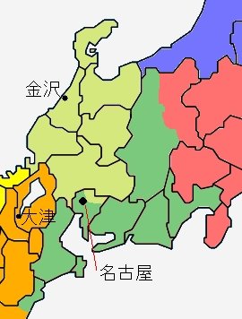 3rd Army Region was composed of two divisional regions. The green area of this map is the 5th Divisional Region and Light green is the 6th Divisional Region. This map is derived to File:Gokishichido.svg.